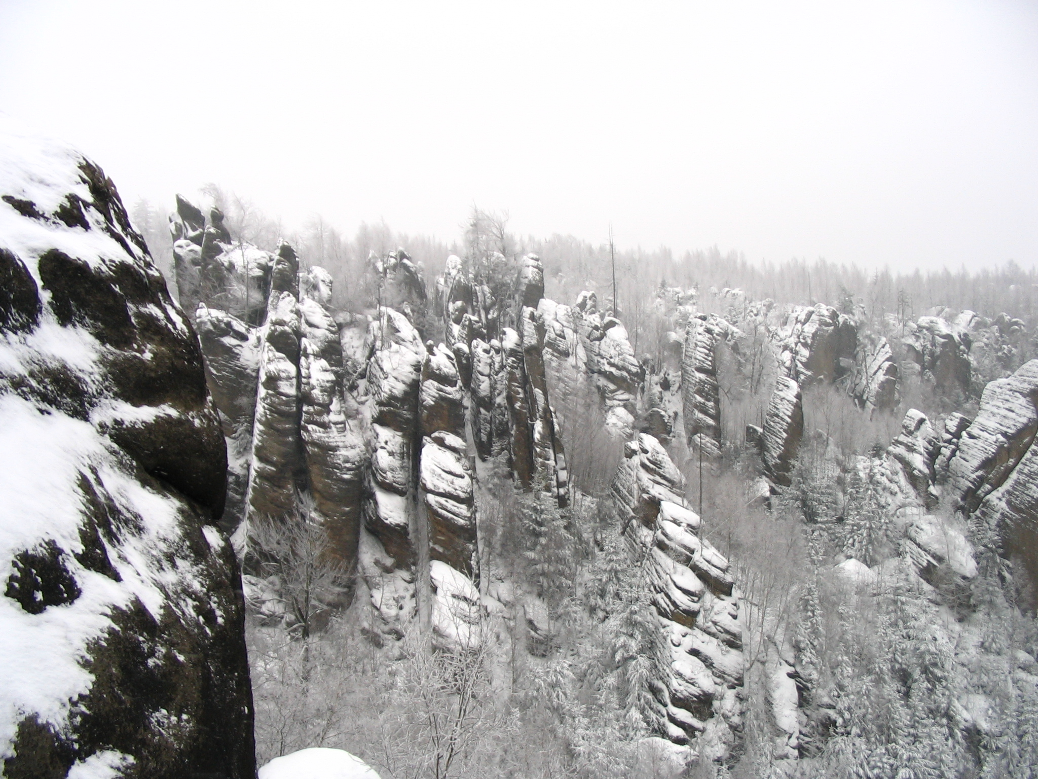 Broumovské stěny in winter, Czech Republic, 2004 yr. Rock formation called Divadlo ("Theatre"). Camera: Canon PowerShot A75